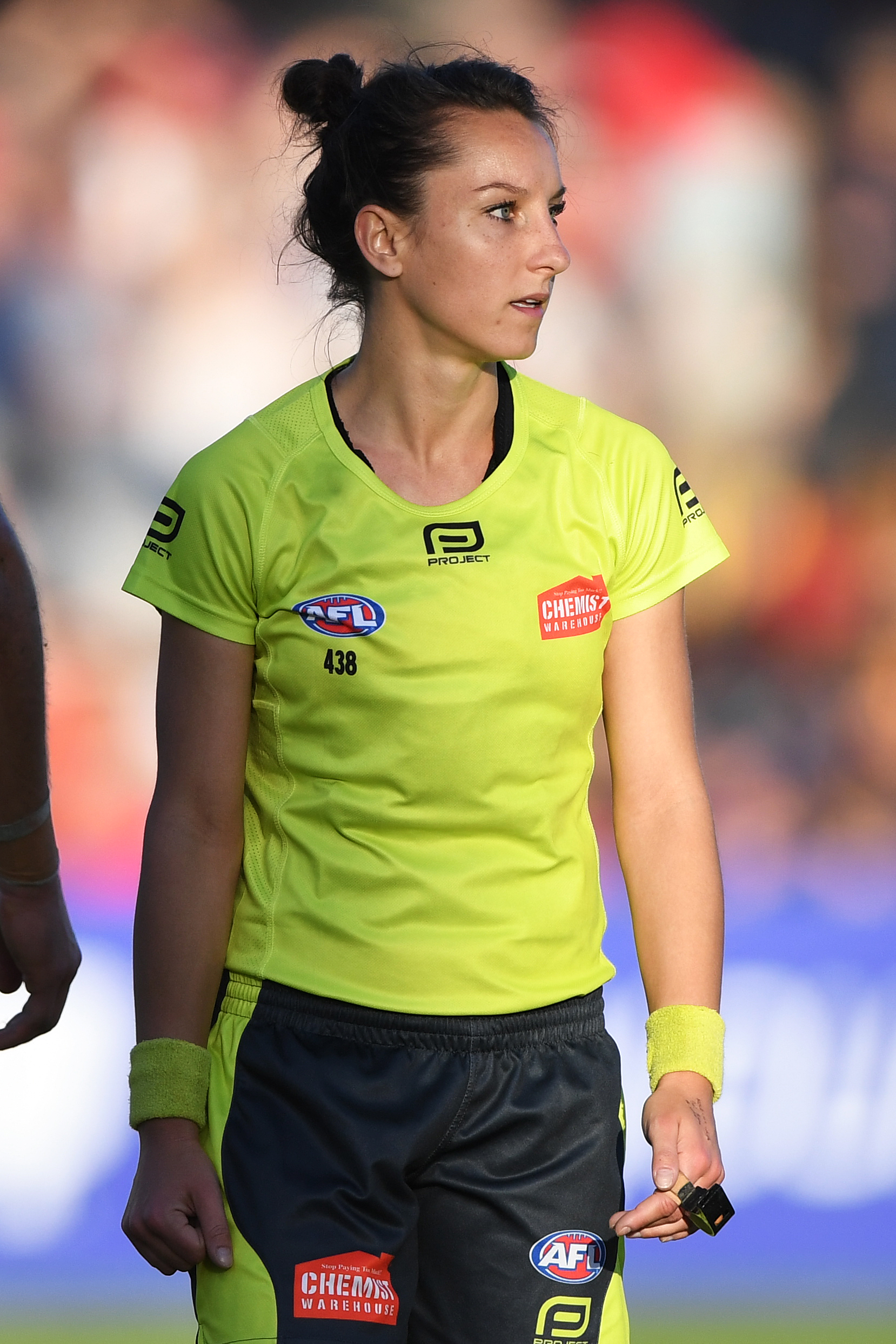 Eleni Glouftsis during the 2019 AFL round 18 match between Melbourne and West Coast at Traeger Park on Sunday, 21 July 2019 in Alice Springs, Northern Territory.